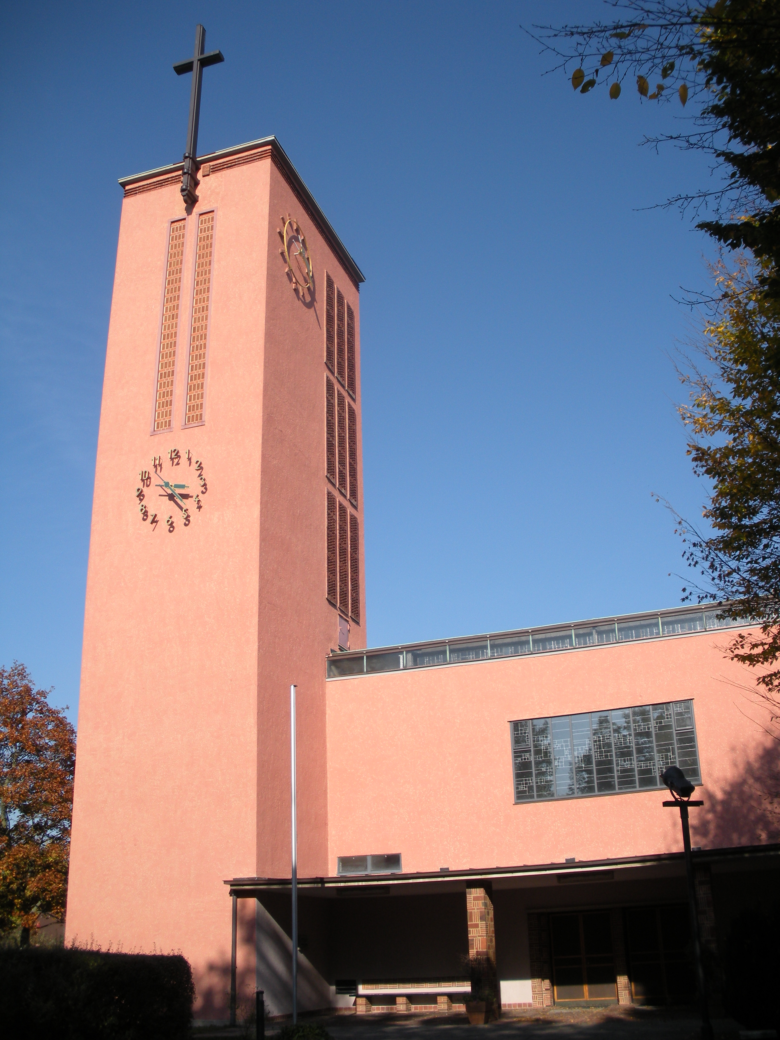 Protestant Church of Cross in Stuttgart-Hedelfingen